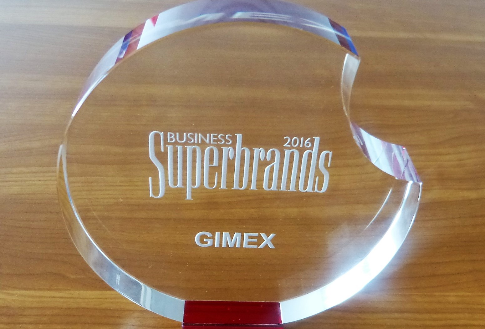 Business Superbrands